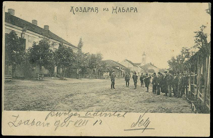 Old photo of Žabari, 1904